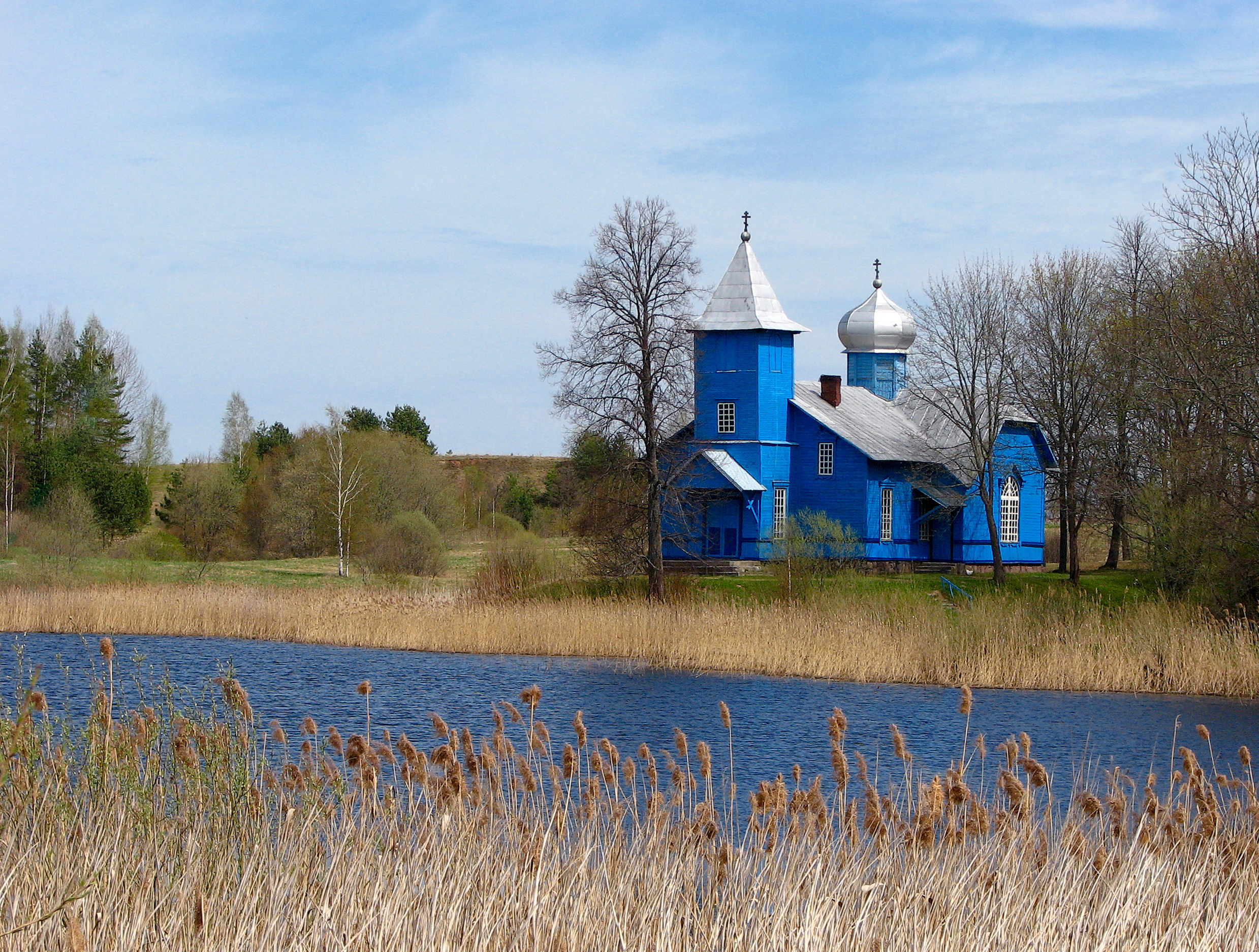 Foļvarka Old believers church near Tuvais ezers